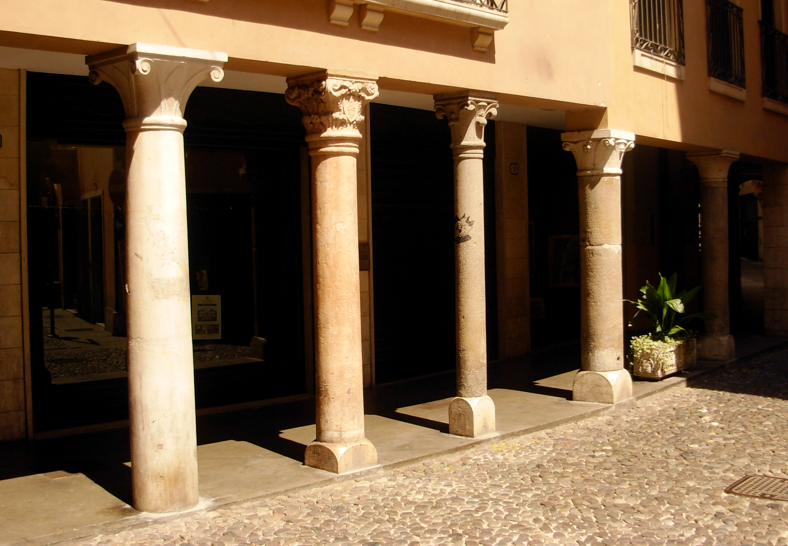 Columns of different shapes in Padova